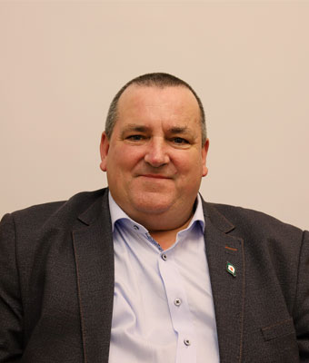 Irish politician Martin Browne of Sinn Féin, taken in 2020.